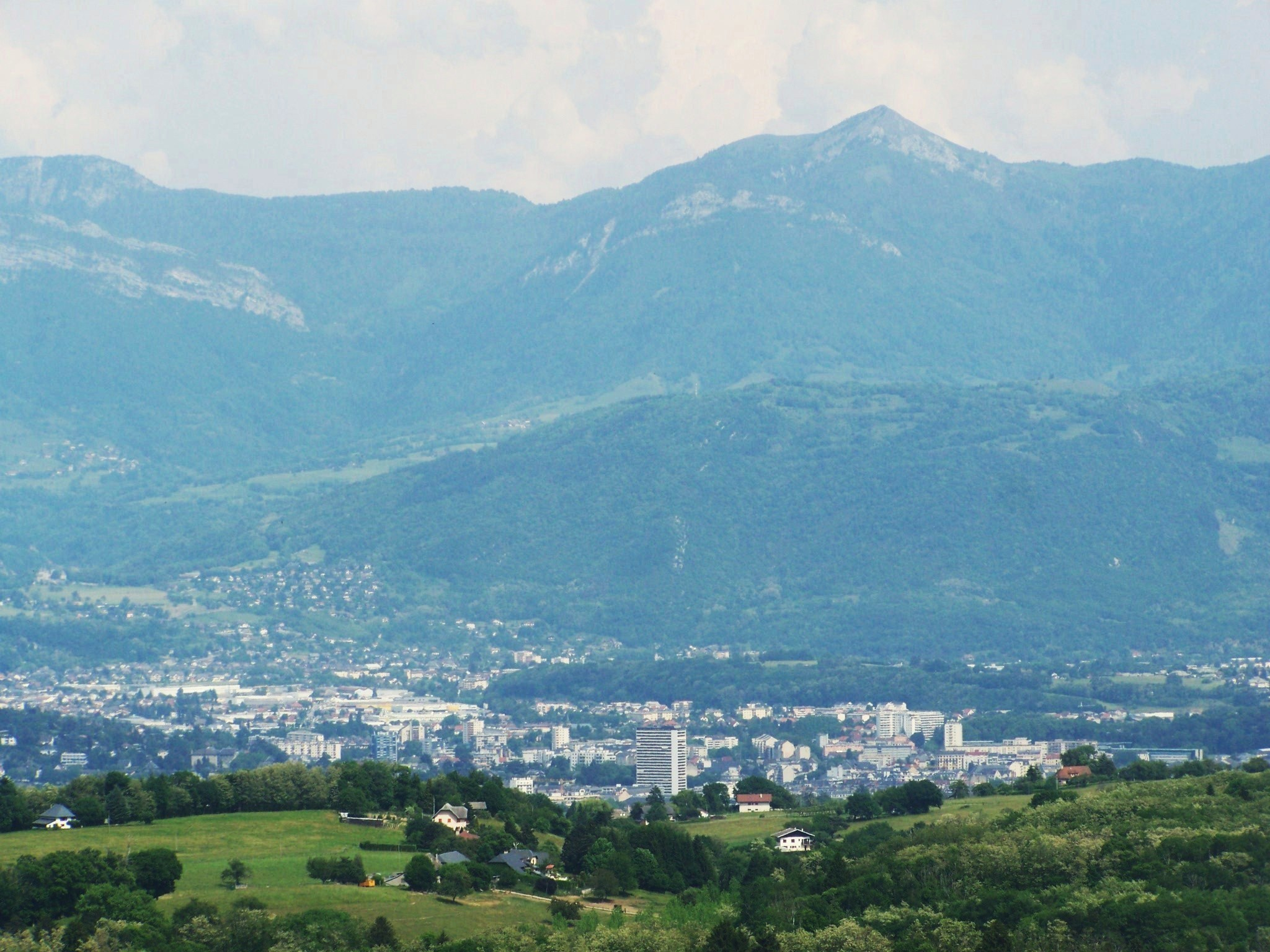 Sight from St-Sulpice of Pointe de la Galoppaz over city of Chambéry and surroundings in Savoie, France.